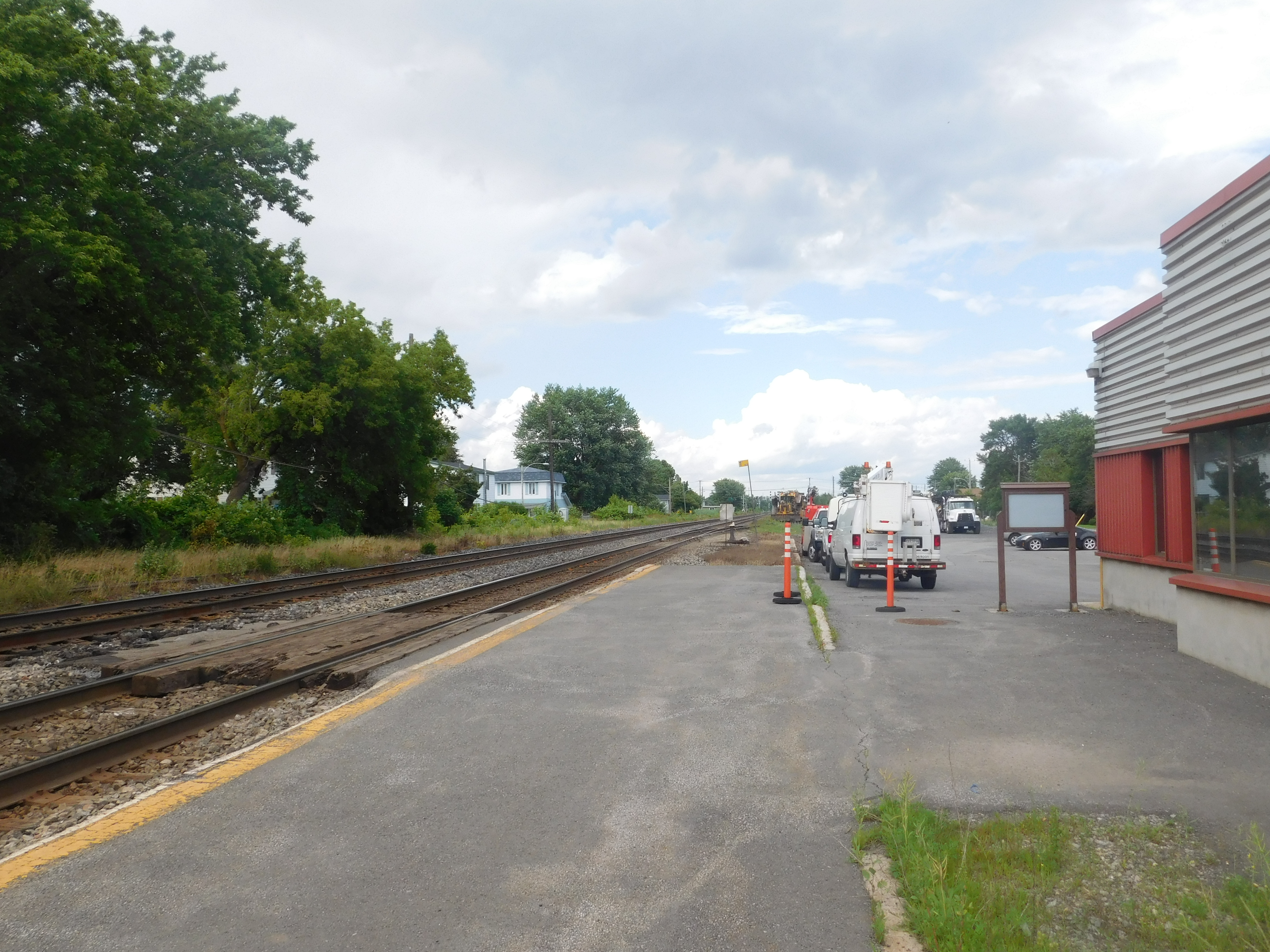 The Coteau station in Les Coteaux, Quebec.